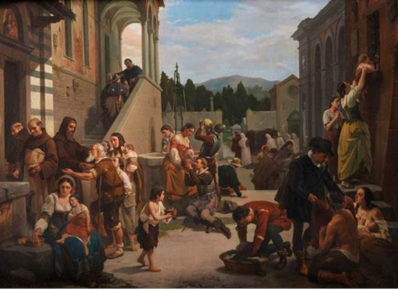 The Seven Acts of Mercy